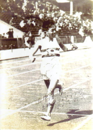 Yasuo Ikenaka at finish line of the Berlin Olympic trials on April 3, 1935 in Tokyo, Japan.